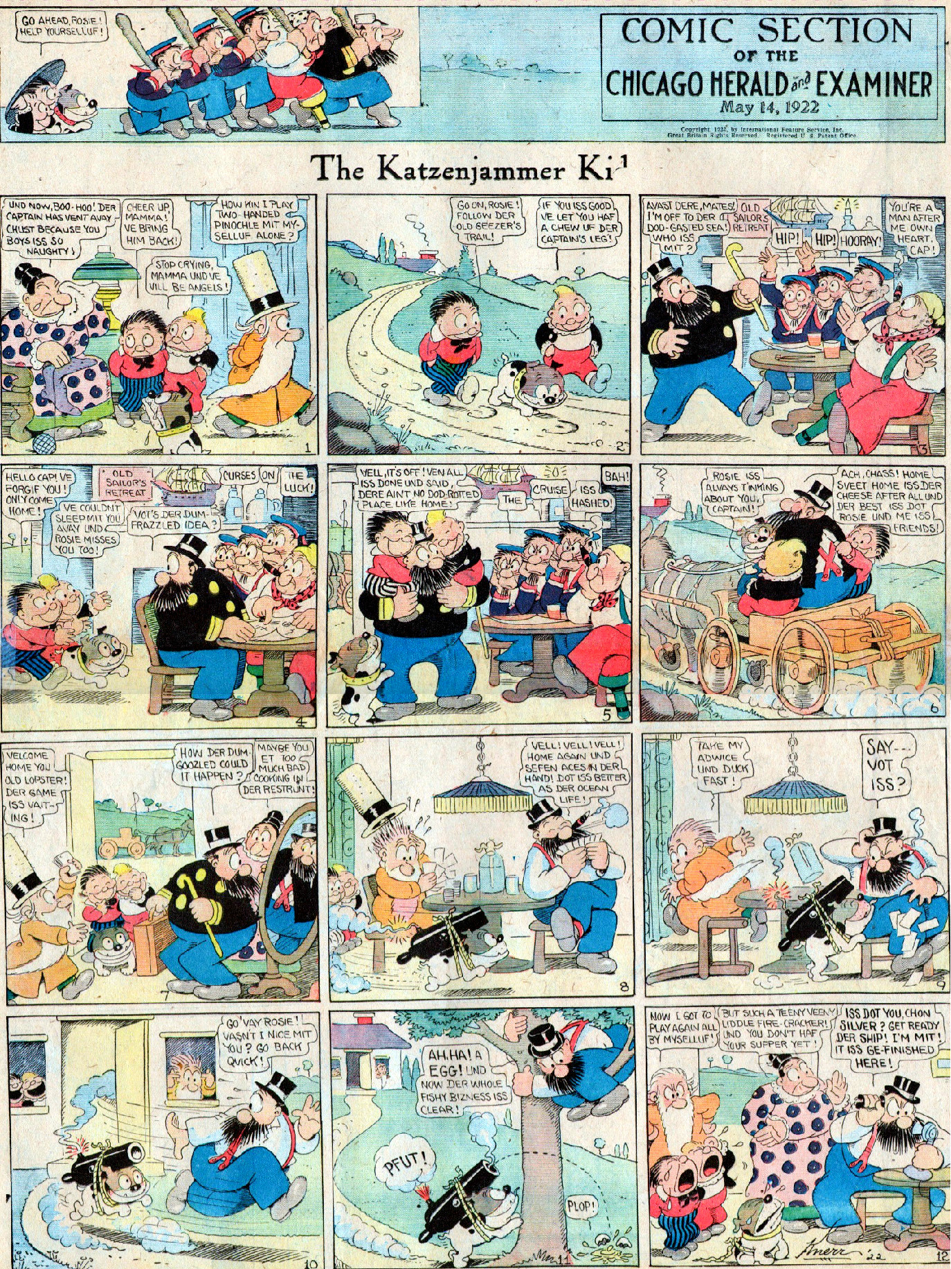 Copy of The Katzenjammer Kids comic strip from 1922. The text in this image should be transcribed and included in the description on this page. See also Inscription . The Google OCR tool may be of use in transcribing images.